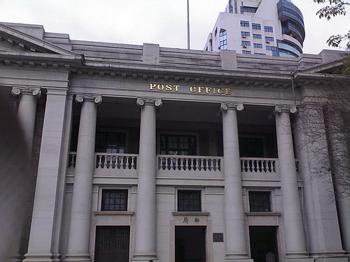 Shantou post office. Feel free to use it.